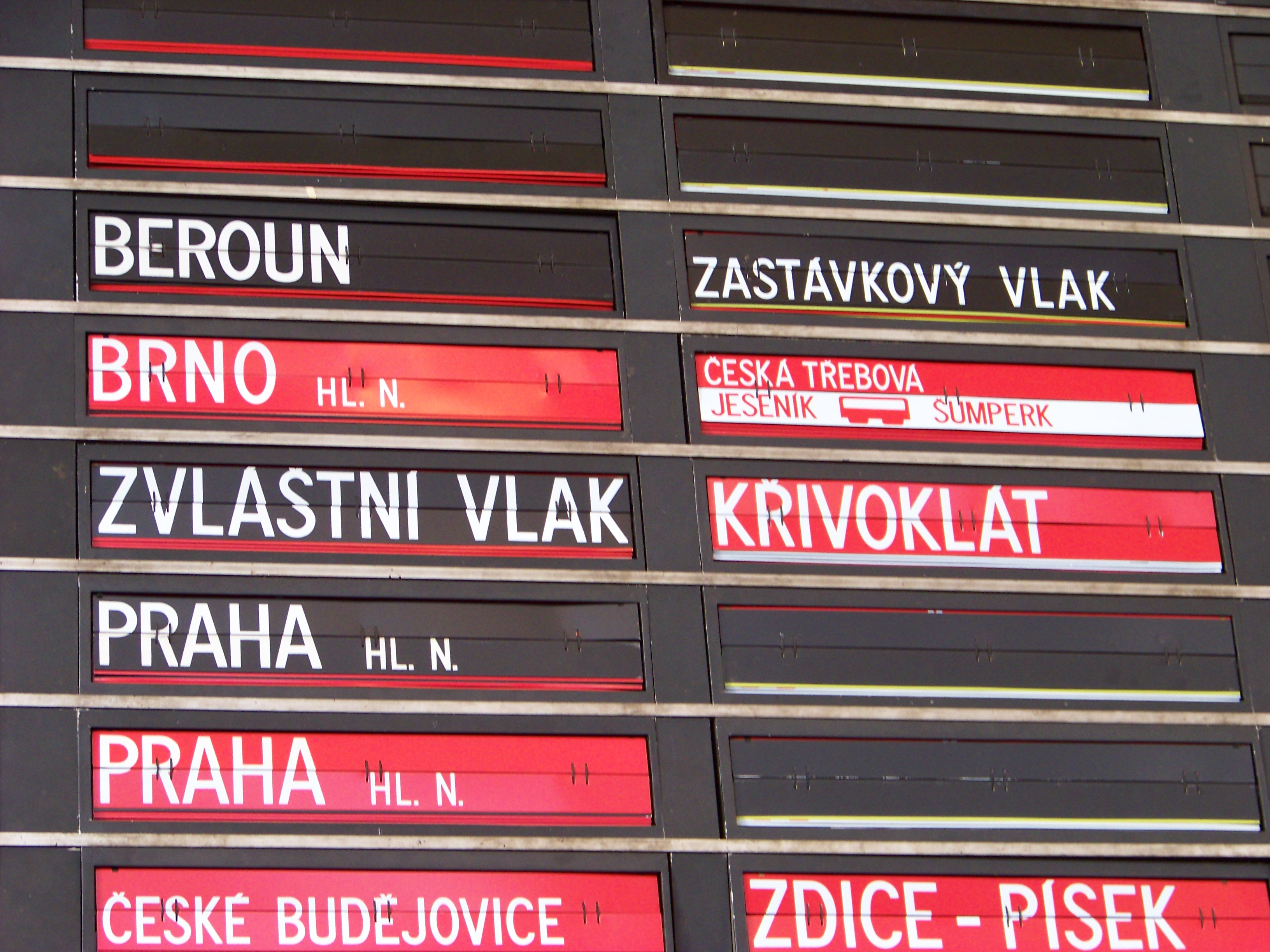 Prague-Smíchov, the Czech Republic. Departure schedule at the main vestibule.